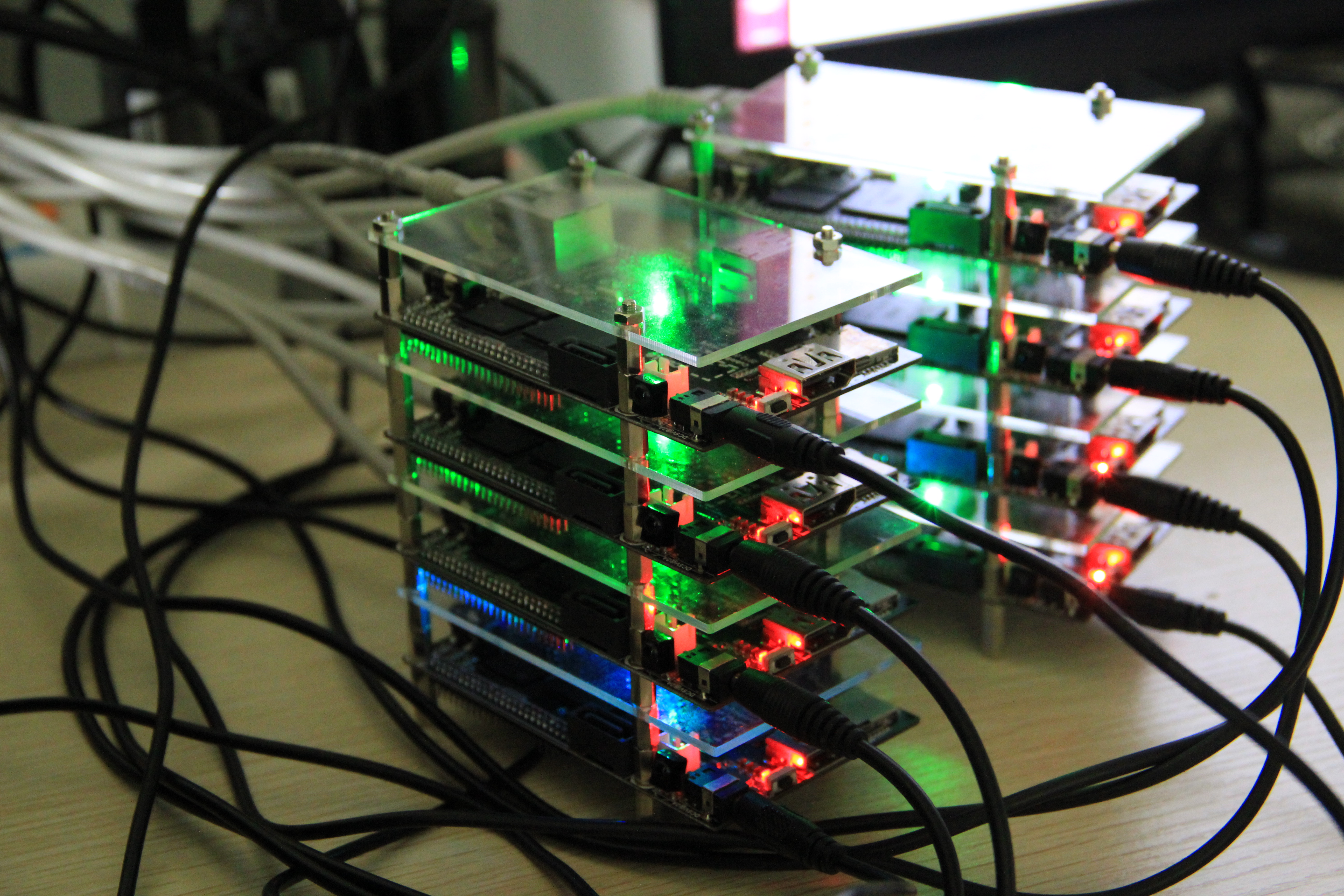 A Hadoop computer cluster of Cubieboards on Lubuntu operating system, More information here